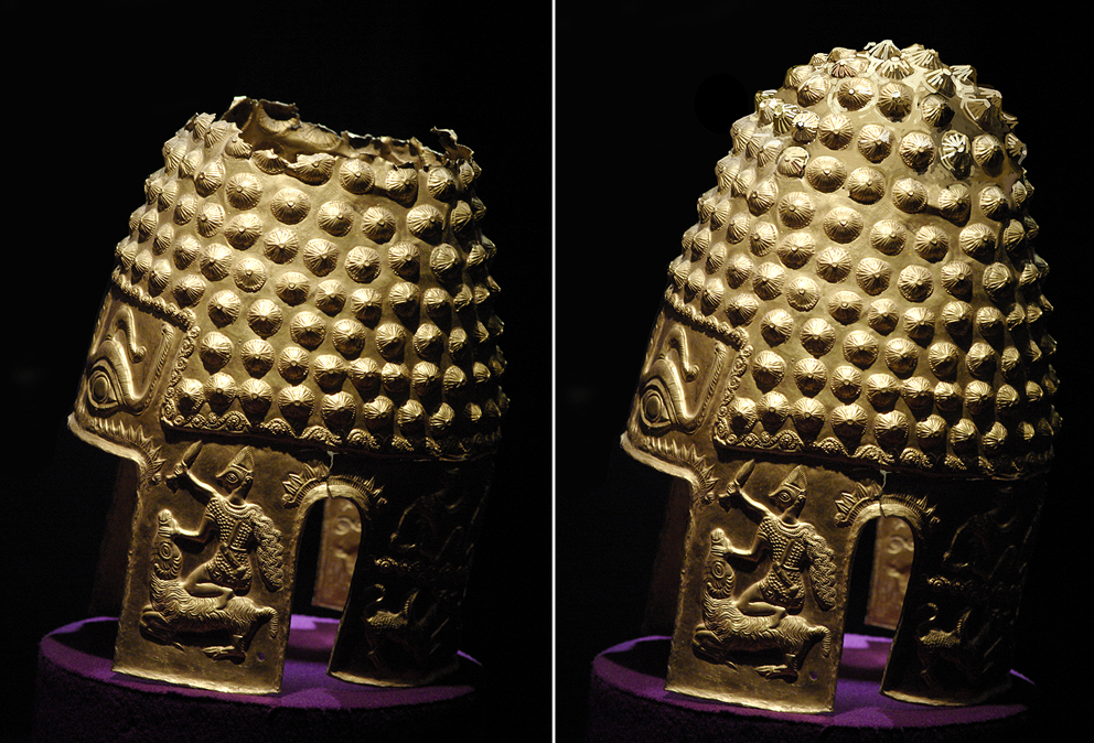 A Geto-Dacian helmet dating from the first half of the 4th century BC, uncovered by chance. Graphical reconstruction by Radu Oltean.